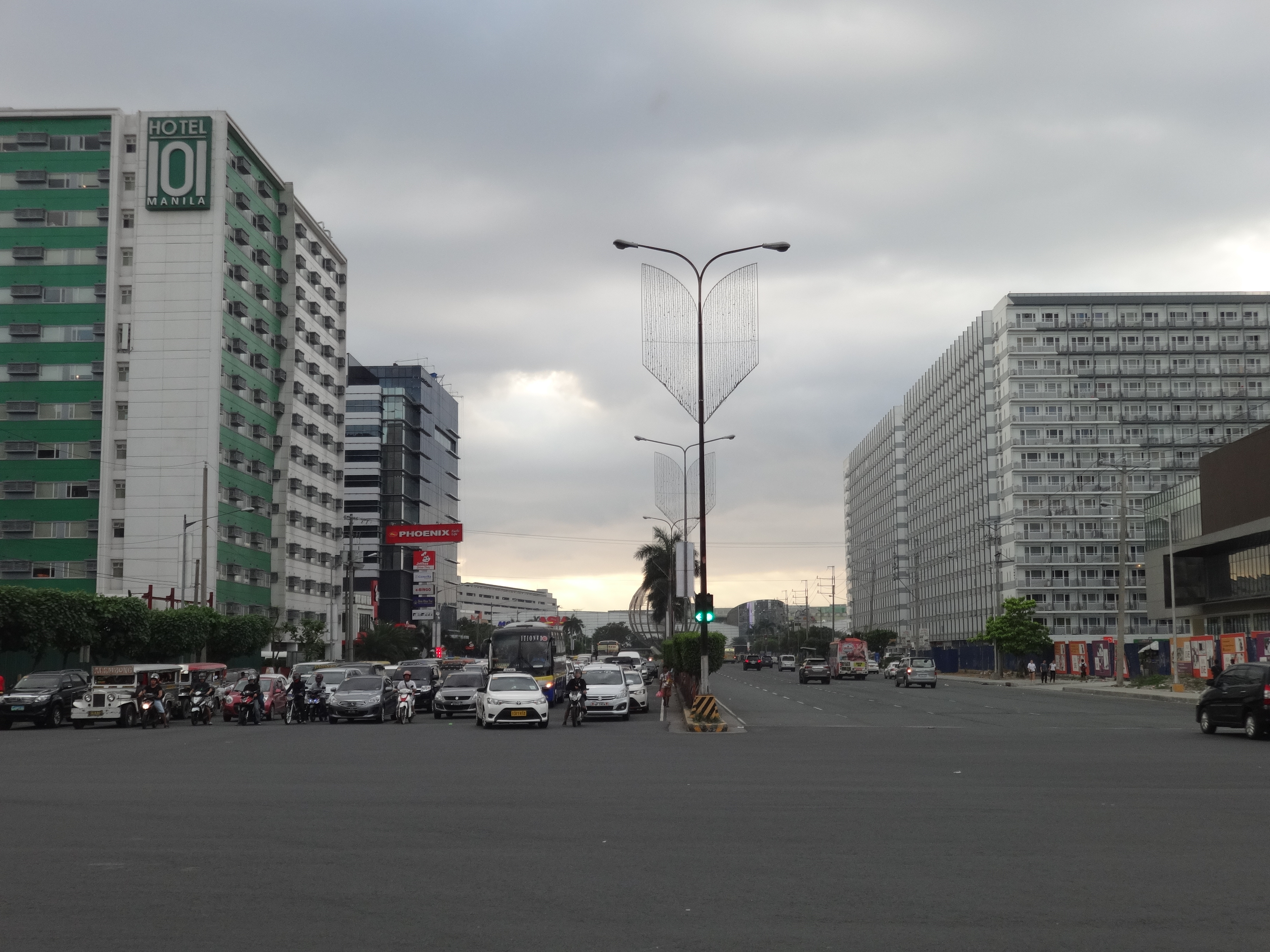 EDSA Extension corner Macapagal Avenue (near Mall of Asia) in CBP-1, Pasay City